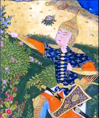 Painting of Suhrab in The Shahnama of Shah Tahmasp